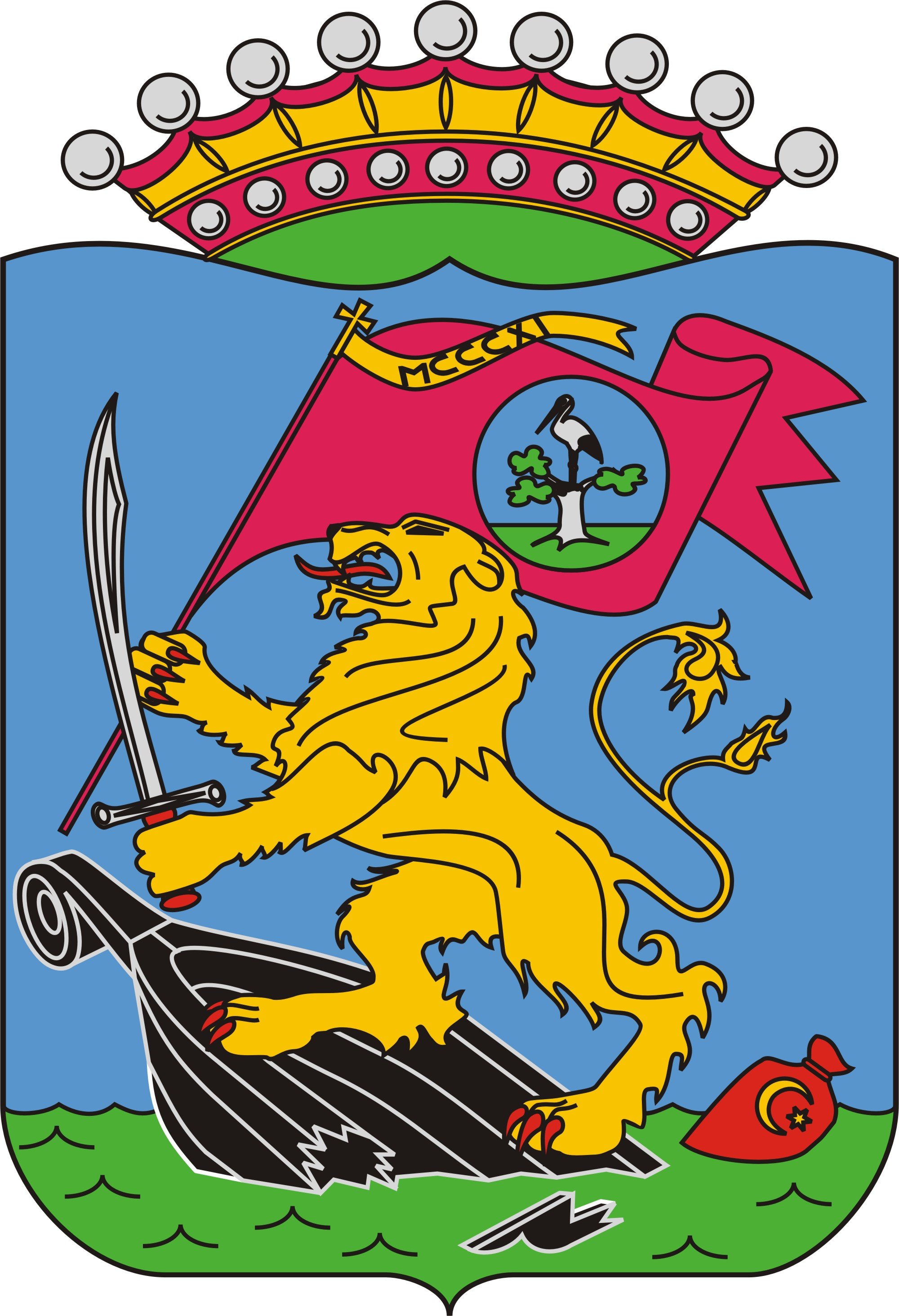 Coat of arms of Foktő, Hungary